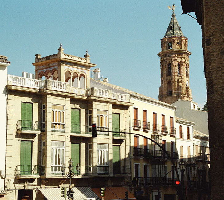 Antequera (province of Málaga, Spain). Old city center. To the right, the tower of the church San Sebastián at the Plaza San Sebastián.